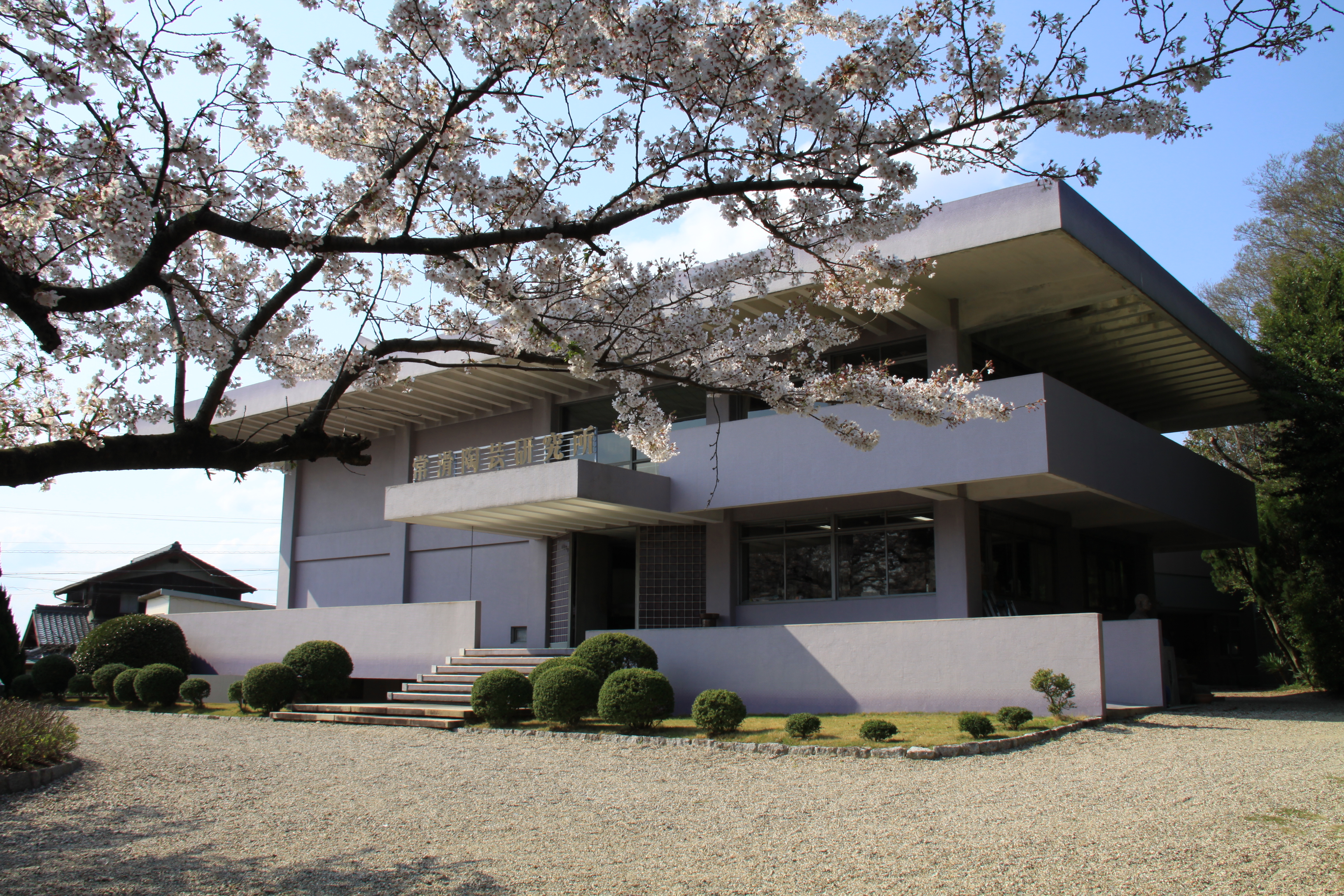 Tokoname Ceramic-Art Laboratory